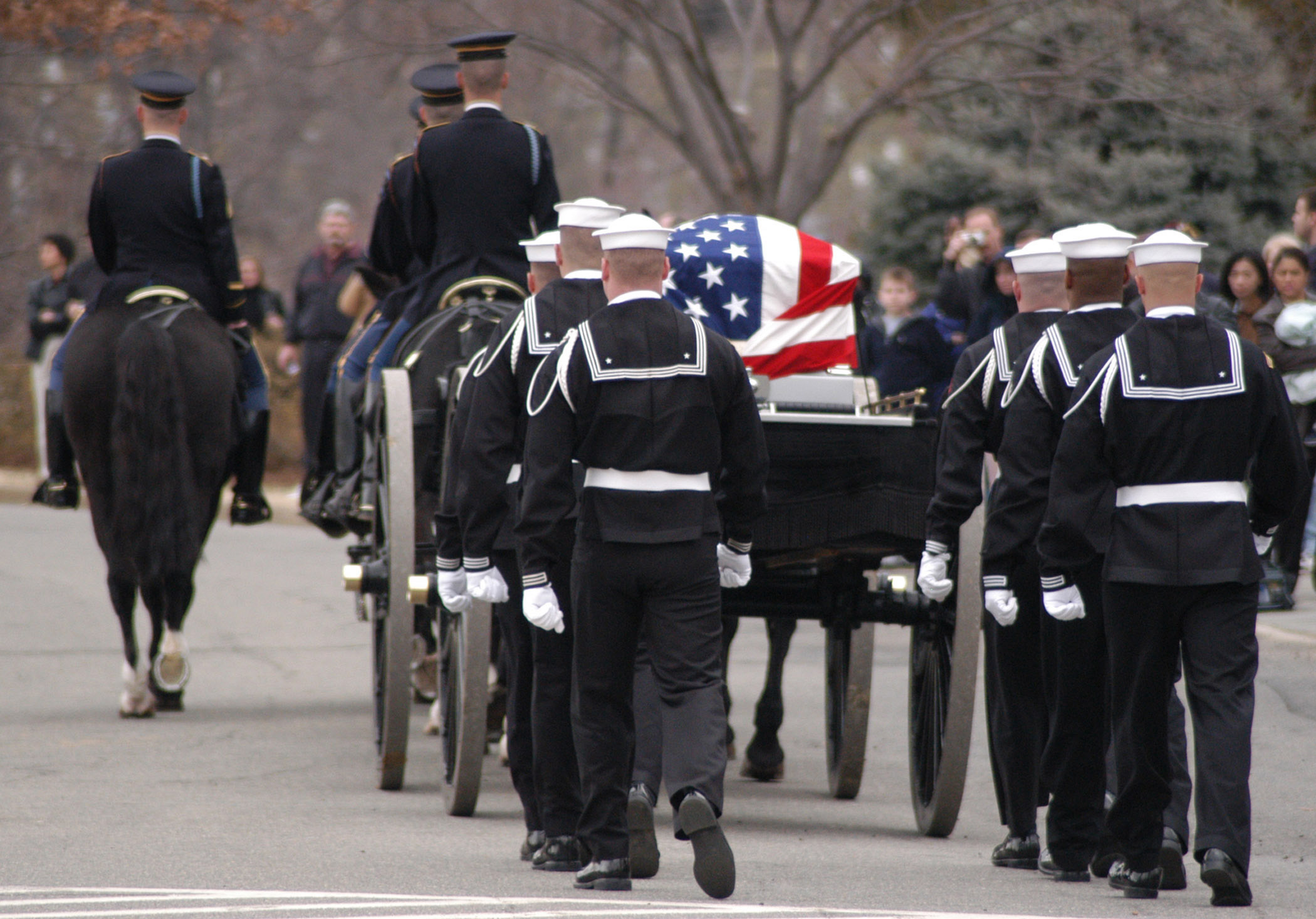 Arlington National Cemetery, Washington, D.C. (Mar. 12, 2003) -- During full military honors the remains of NASA astronaut and U.S Navy Captain David M. Brown, is carried by horse-drawn carriage to his burial site at Arlington National Cemetery. Capt. Brown will be laid to rest beside crewmates Navy Capt. Laurel Blair Salton Clark and Air Force Lt. Col. Michael Anderson near the cemetery’s Challenger Space Shuttle Memorial. Captain Brown was one of the seven crewmembers, which perished during the Space Shuttle Columbia's fateful reentry to the earth's atmosphere on February 1, 2003. U.S Navy photo by Photographer’s Mate 2nd Class Corey T. Lewis. (RELEASED)